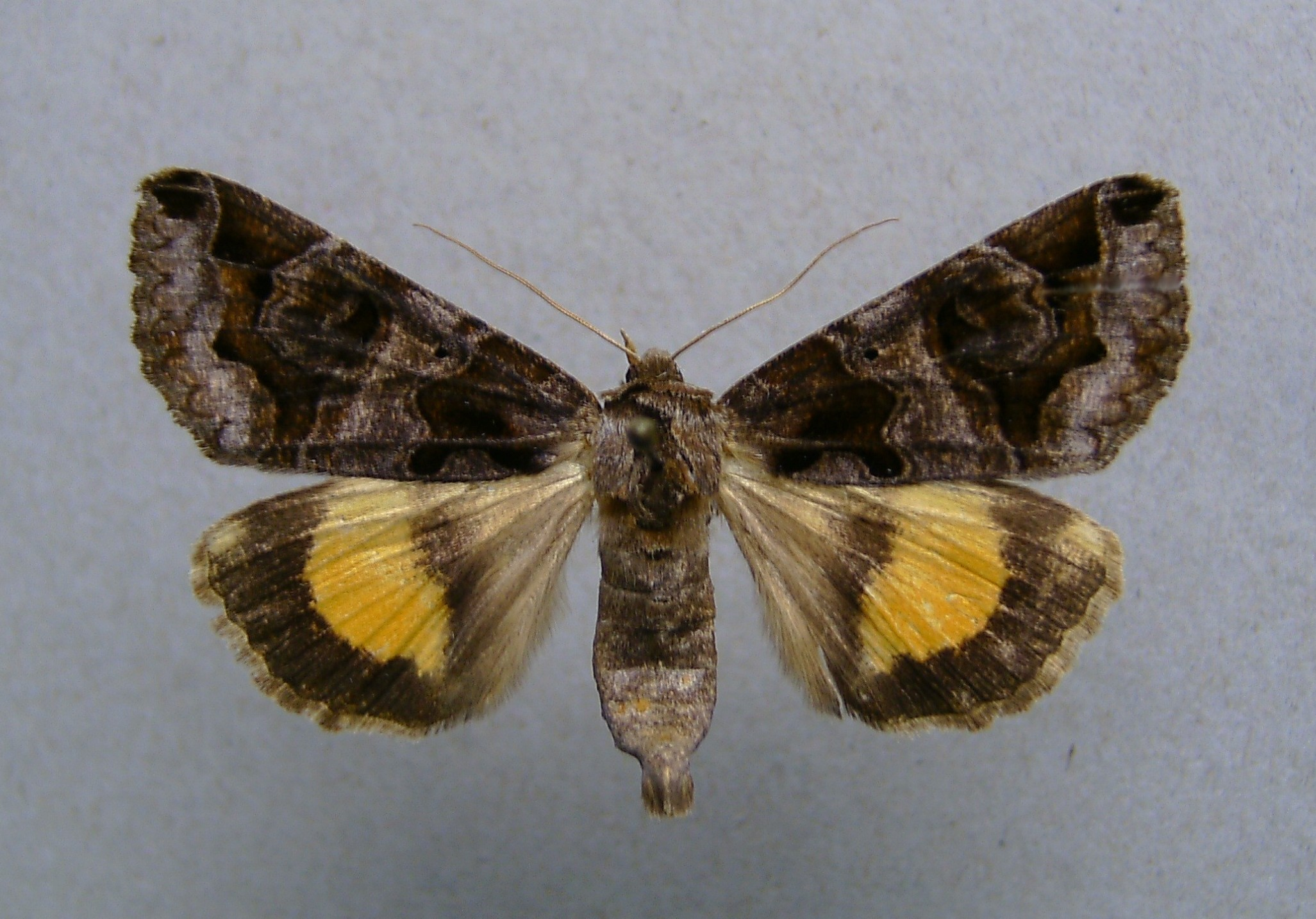 Chrysorithrum flavomaculata, Kunashir Island, Kuril Islands